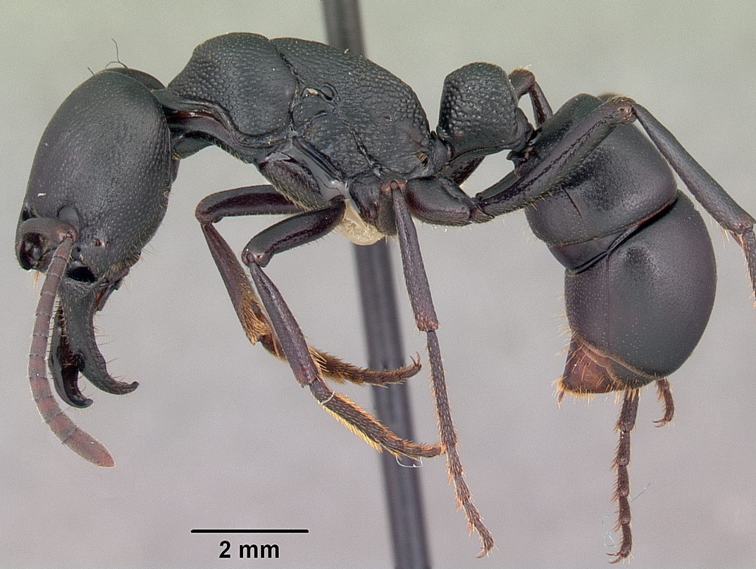 Profile view of ant Plectroctena strigosa specimen casent0102982.